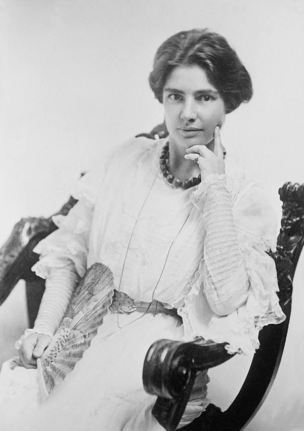 Clara Clemens, daughter of Mark Twain, seated at a piano in 1908.